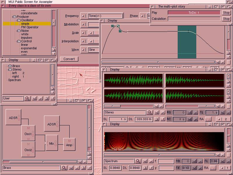 Screenshot of Amiga Assampler